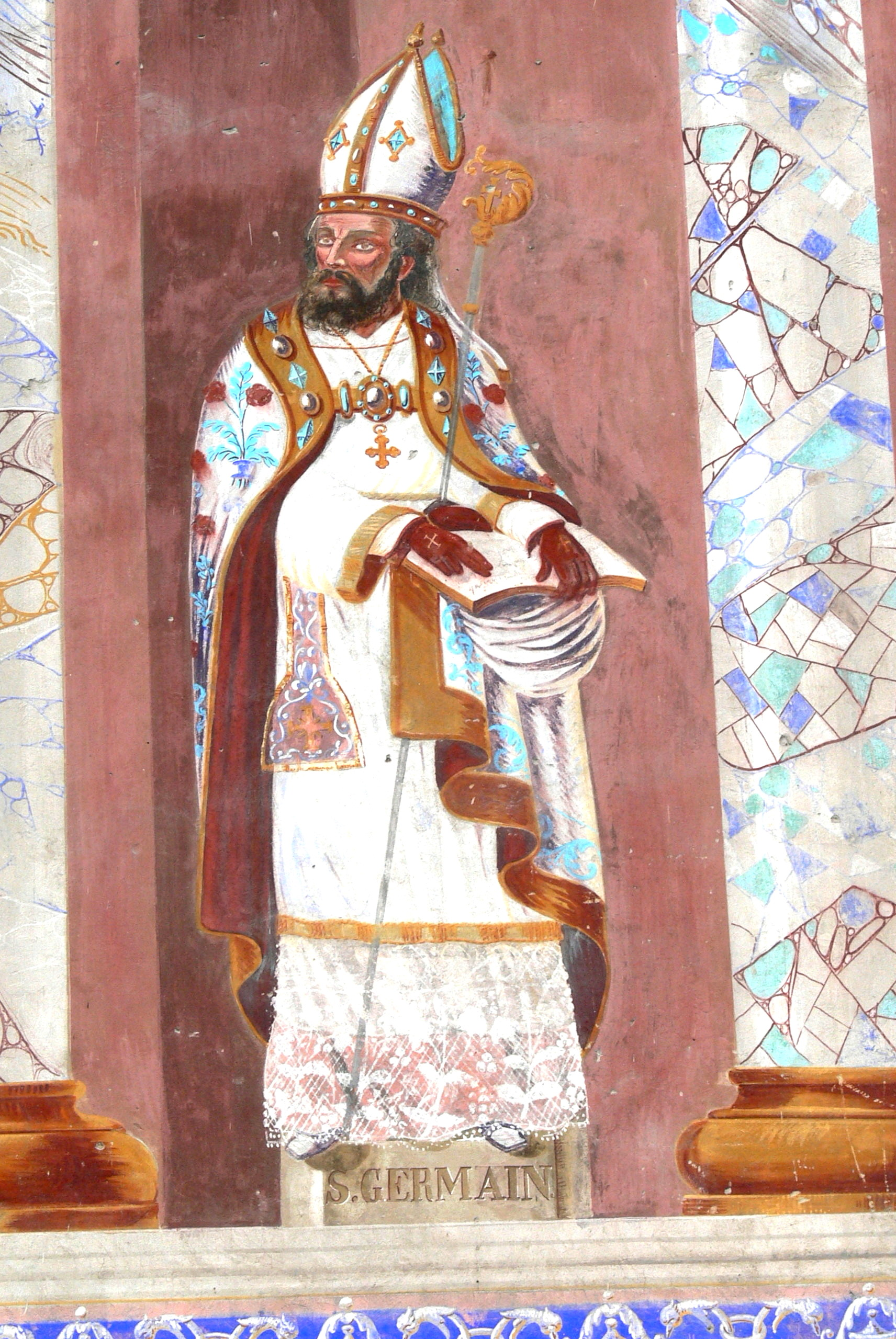 Aymavilles ( Aosta Valley ). Saint Leger church: Fresco ( 1857 ) - Saint Germain.